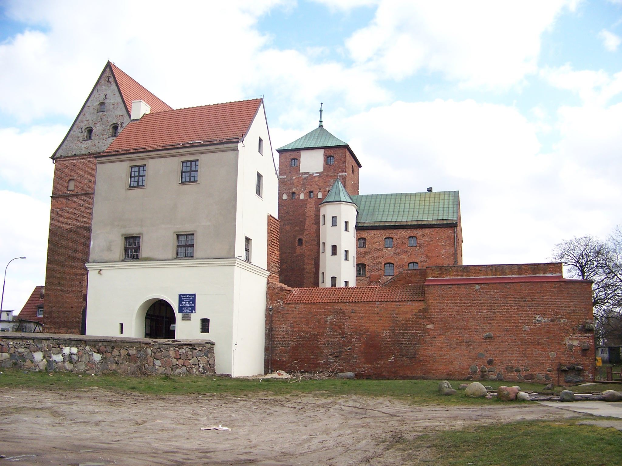 Castle in Darłowo